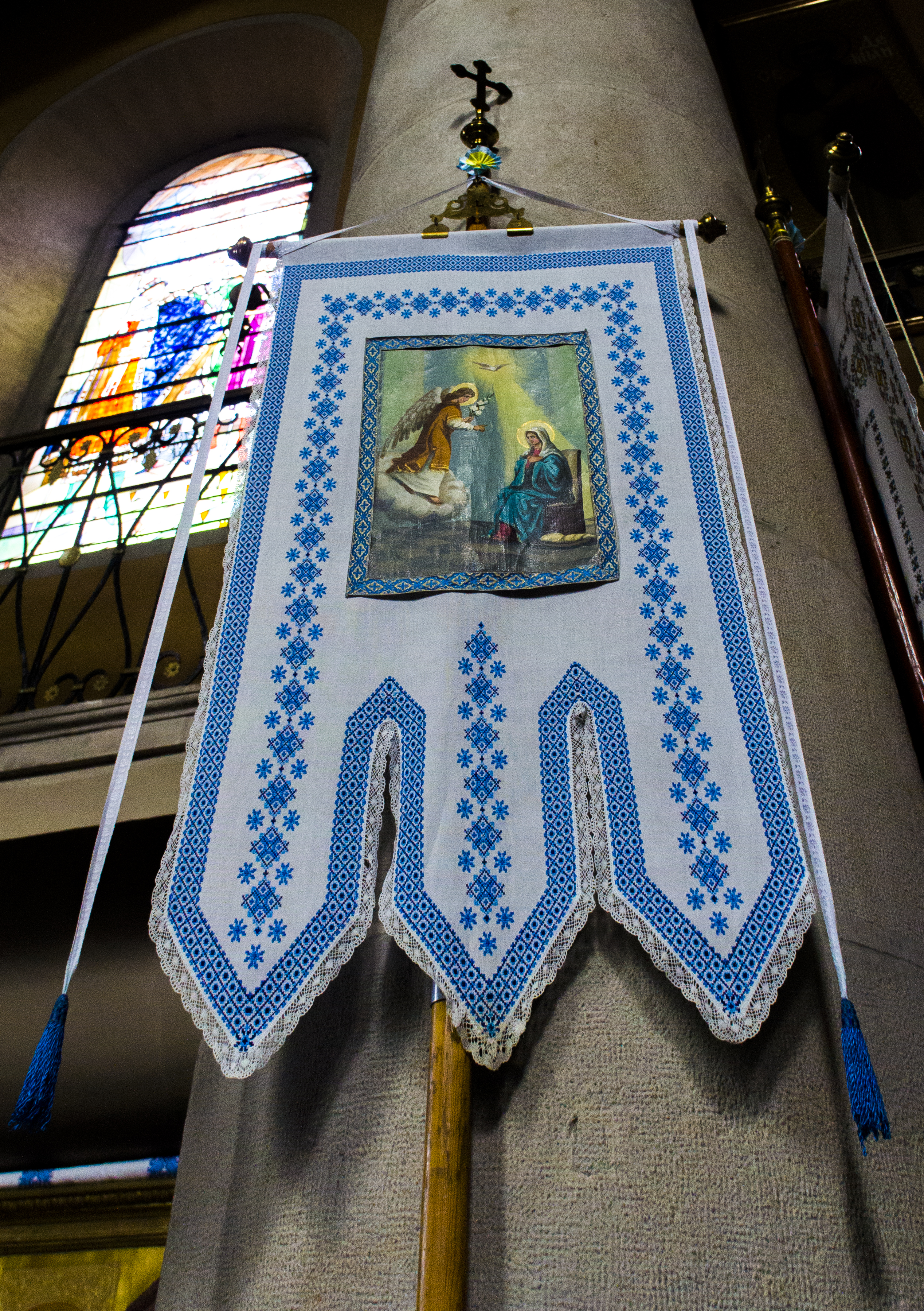 Khorugv in Orthodox church, Lvov, Ukraine.